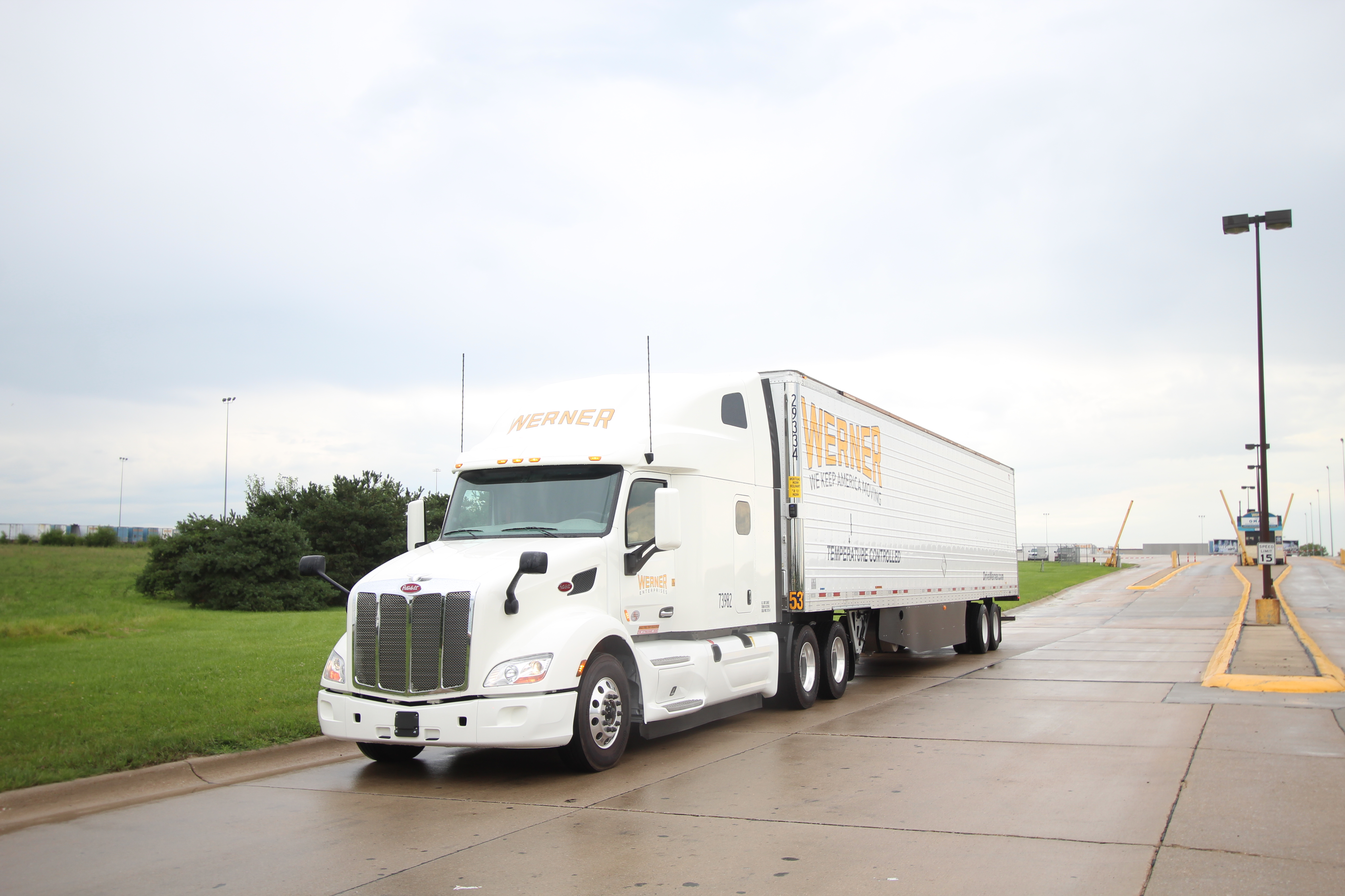 Temperature-Controlled, 2019